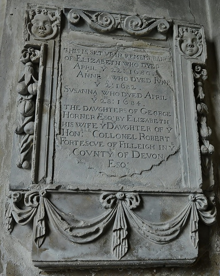 Mells: St Andrew's Church: Memorial to George Horner's daughters. Col. Robert Fortescue (1617-1676/7) was the second son of Hugh Fortescue (1592/3-1663) of Filleigh in Devon (ancestor of Earl Fortescue and Earl of Clinton), by his wife Mary Rolle, a daughter of Robert Rolle of Heanton Satchville, Petrockstowe, Devon. Elizabeth Fortescue was his second daughter by his second wife Susanna Northcote, a daughter of Sir John Northcote, 1st Baronet (1599-1676). (Vivian, Lt.Col. J.L., (Ed.) The Visitations of the County of Devon: Comprising the Heralds' Visitations of 1531, 1564 & 1620, Exeter, 1895, pp.354-5)